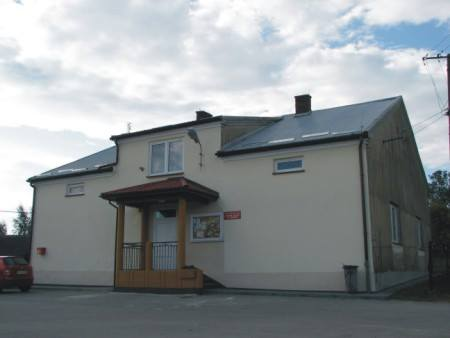 Cierpisz